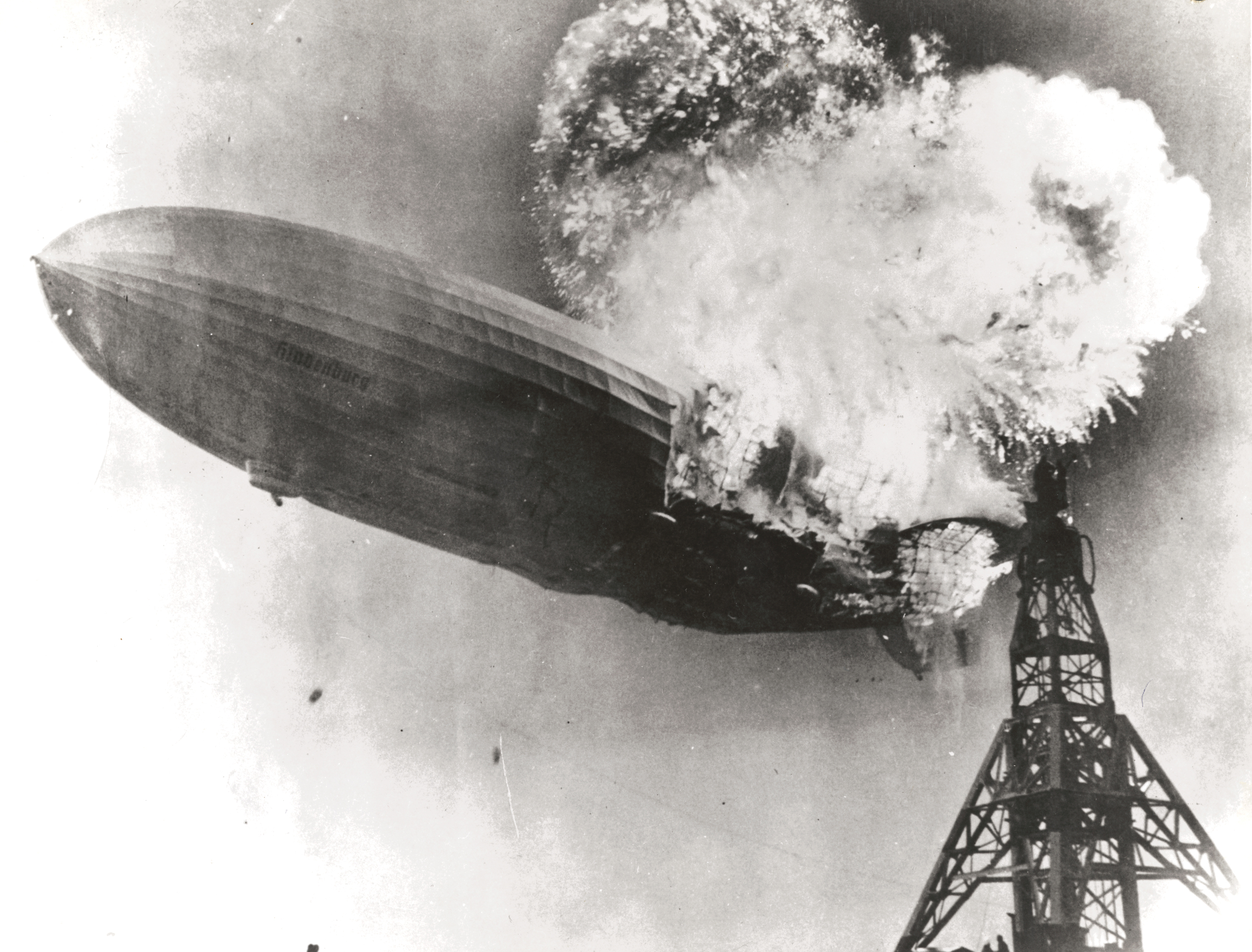 The Zeppelin LZ 129 Hindenburg catching fire on May 6, 1937 at Lakehurst Naval Air Station in New Jersey.